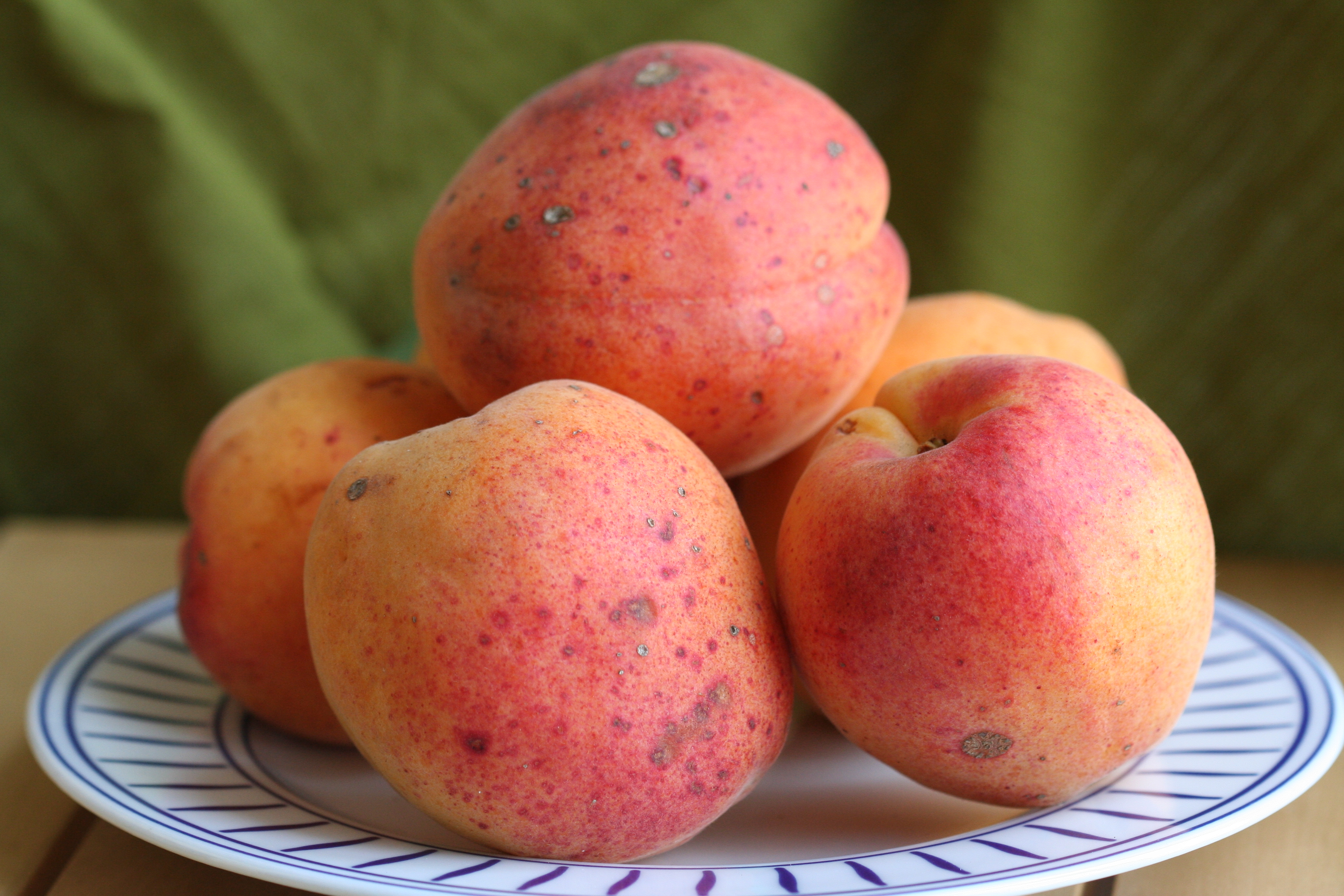 Apricots from Vesuvius, called "crisommole"